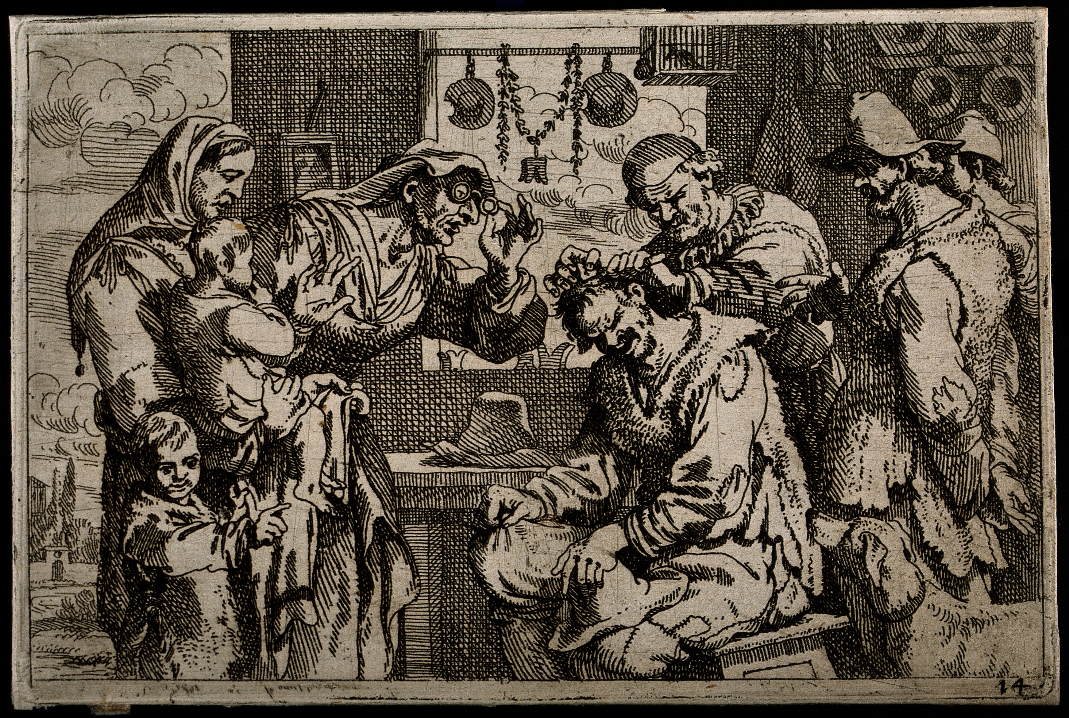 A travelling barber-surgeon examining a man's head: a group of locals watch with interest. Etching. Iconographic Collections